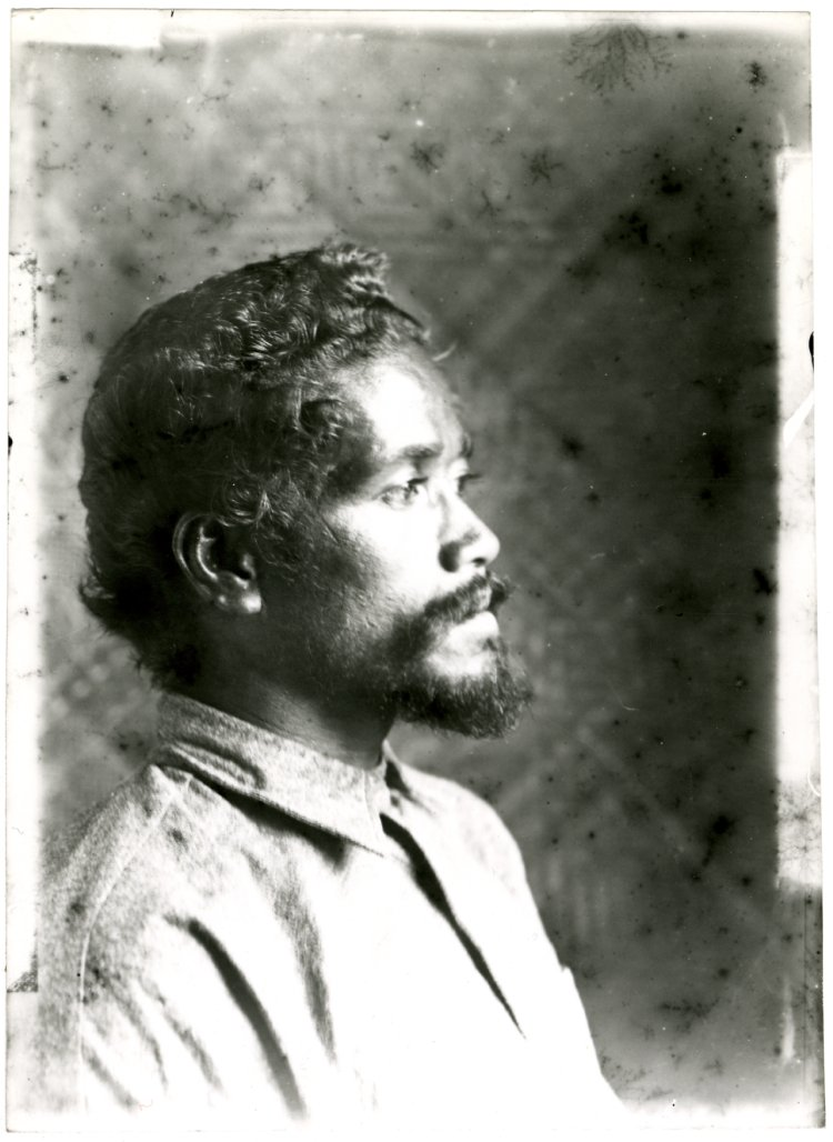 Photograph (black and white); portrait of a man in profile, in front of a plaited plant fibre wall, with a moustache and beard, wearing a shirt; Oceania. Gelatin silver print